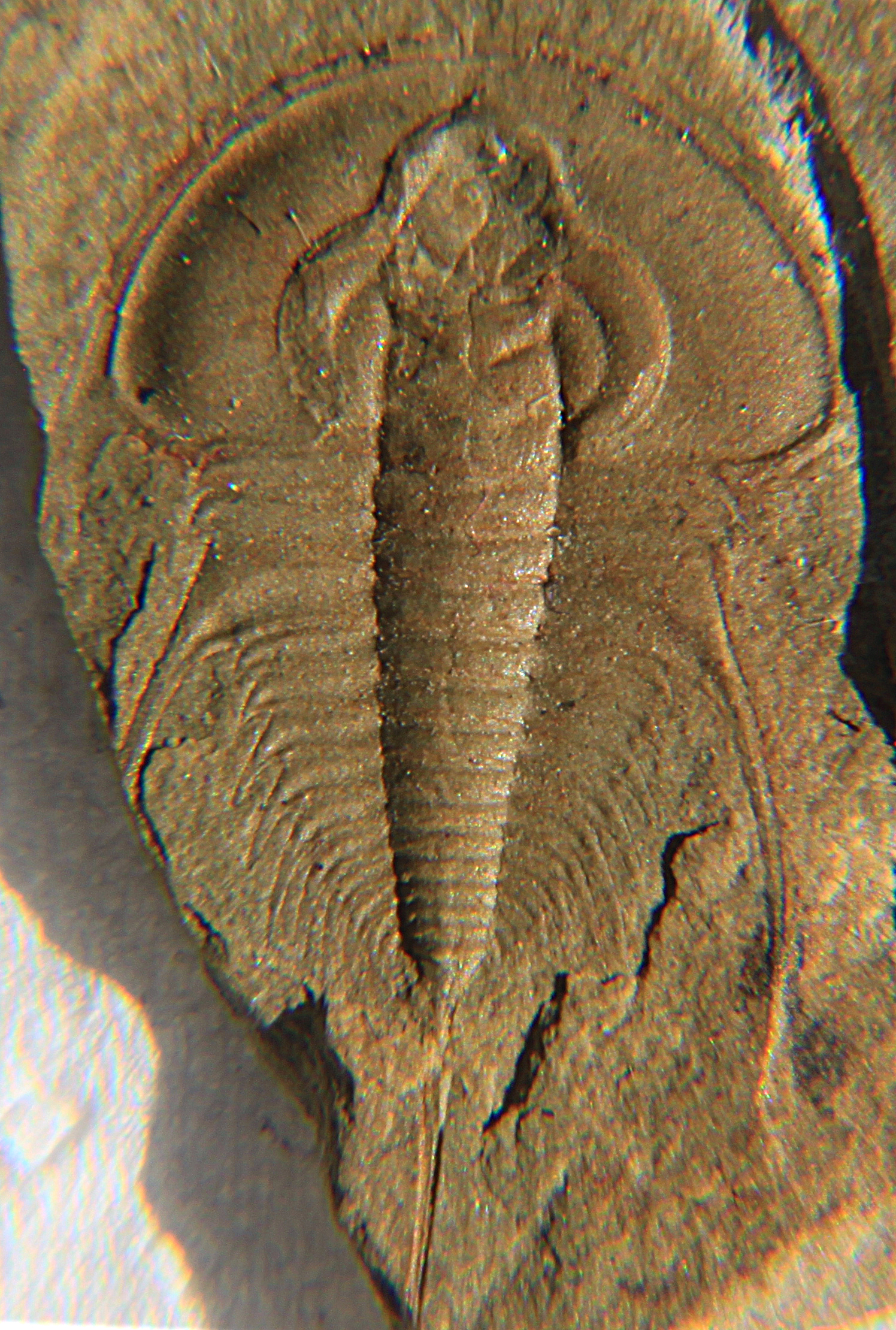 An Olenellus gilberti trilobite, Order Redlichiida, Family Olenellidae, 15mm along the axis, collected from the Pioche Shale, California, USA, from the end of the Lower Cambrian (Toyonian)